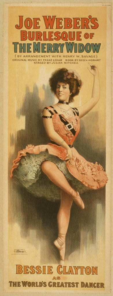 Dancer Bessie Clayton